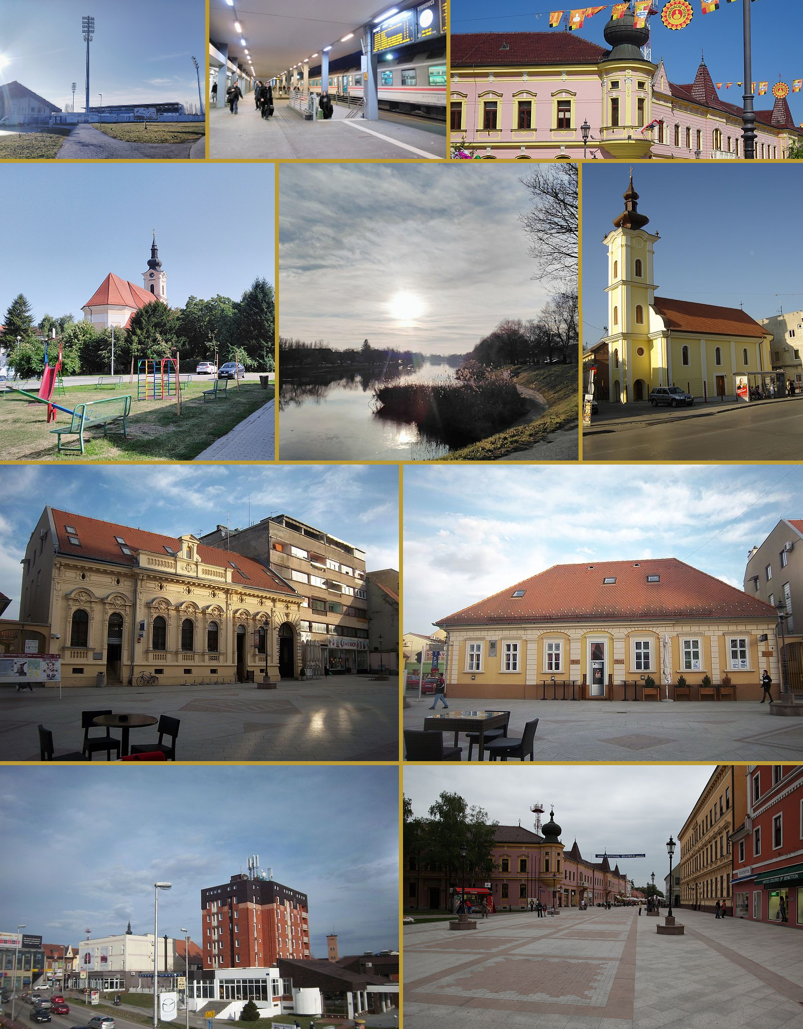 Photos of Vinkovci, town in eastern Croatia. Srpskohrvatski / српскохрватски: Fotografije Vinkovaca, grada u istočnoj Hrvatskoj.